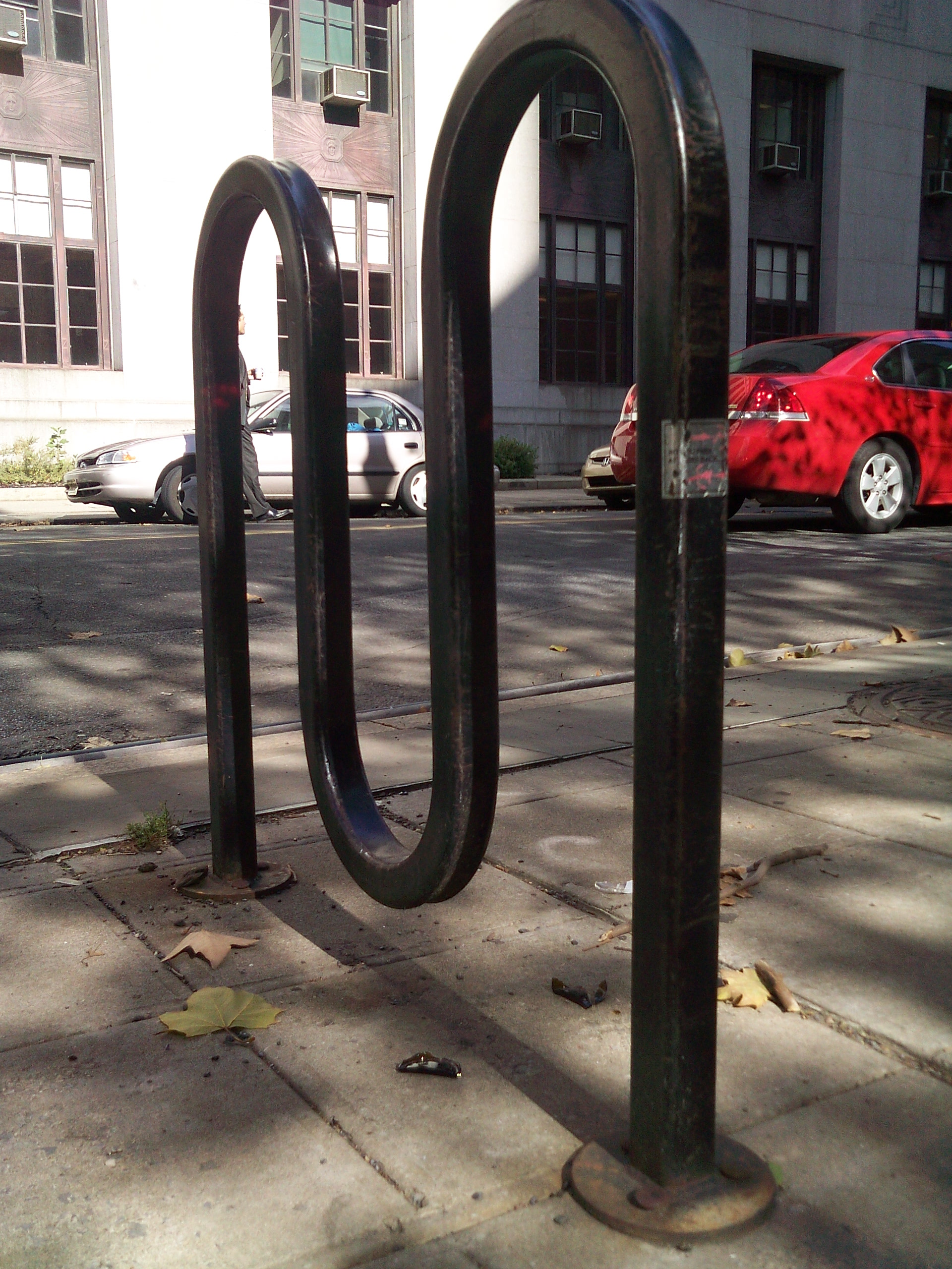 Double U Bike Racks in New York City